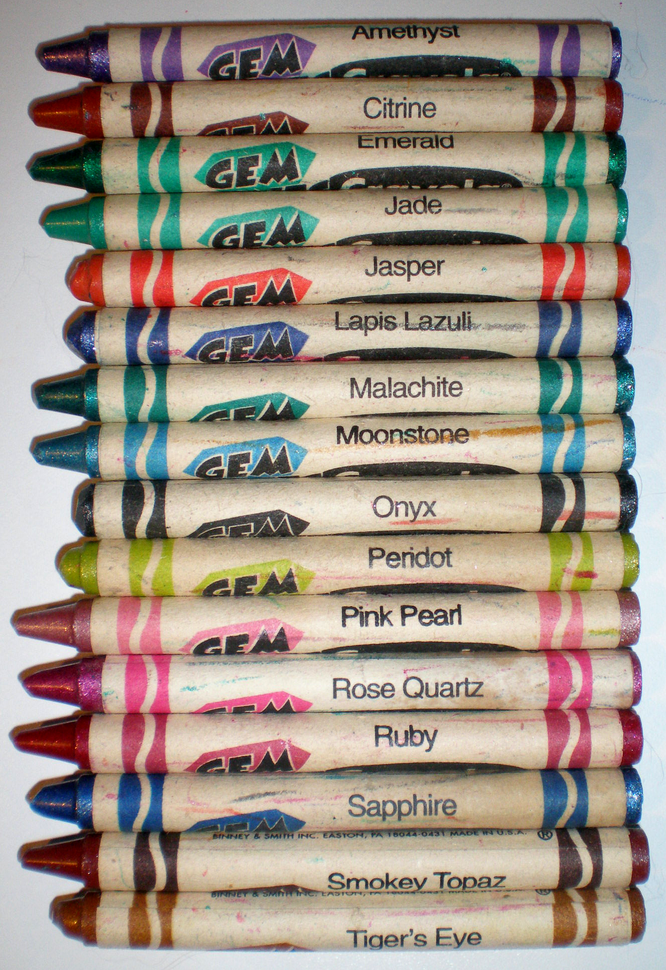 Crayola's 16-pack of Gem Tones crayons, introduced in 1994.